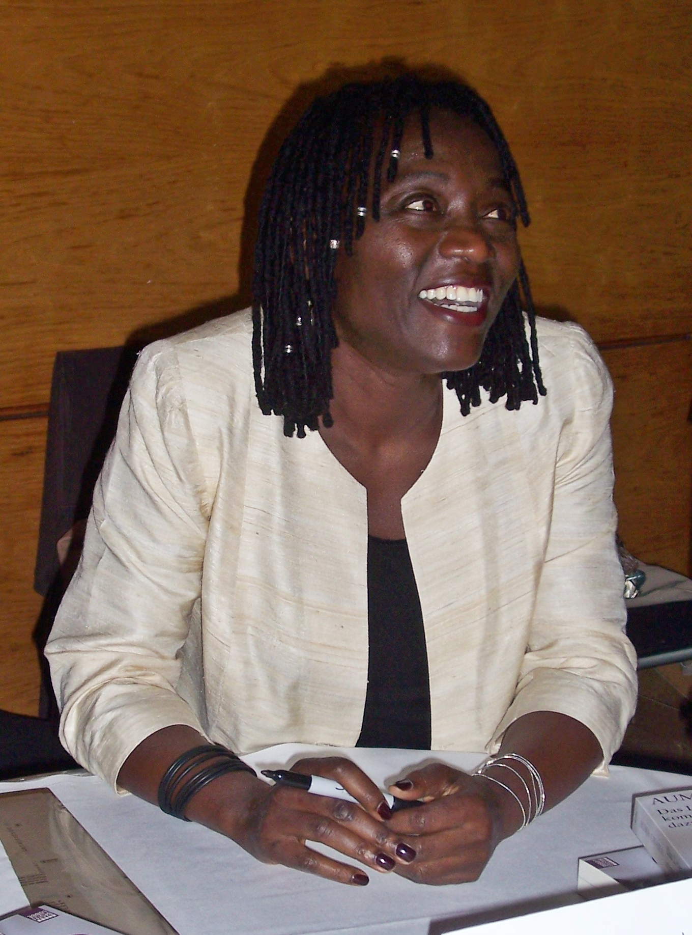 Auma Obama (half-sister of Barack Obama) signing her book "Das Leben kommt immer dazwischen" after a panel discussion at the 98. Katholikentag in Germany 2012 (Mannheim, CC Rosengarten)